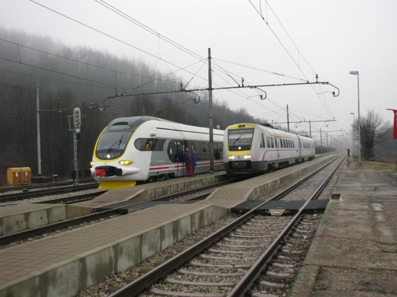 A Croatian railways regional and tilting train